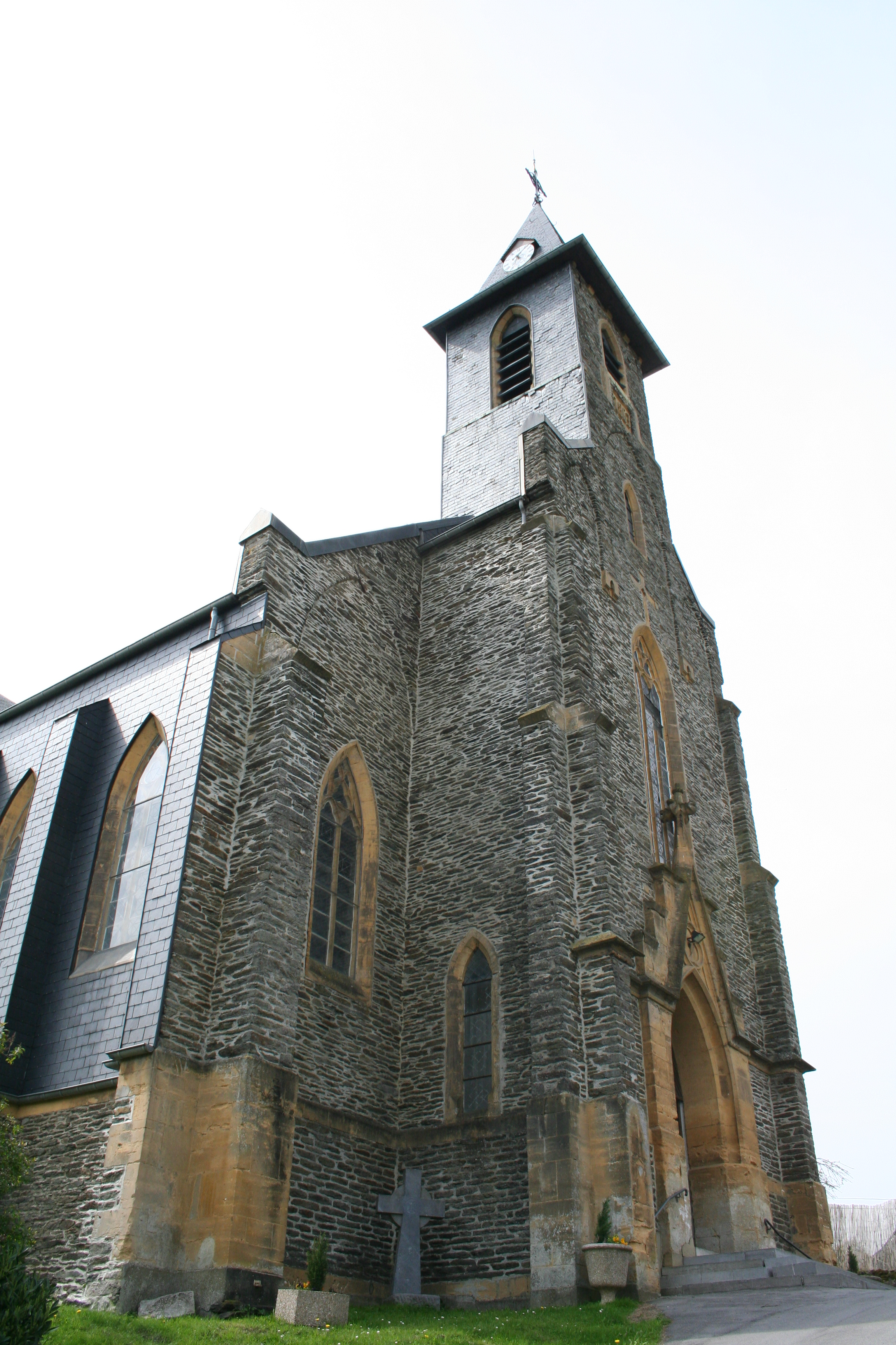 Orchimont (Belgium), the Saint Martin's church (1863).